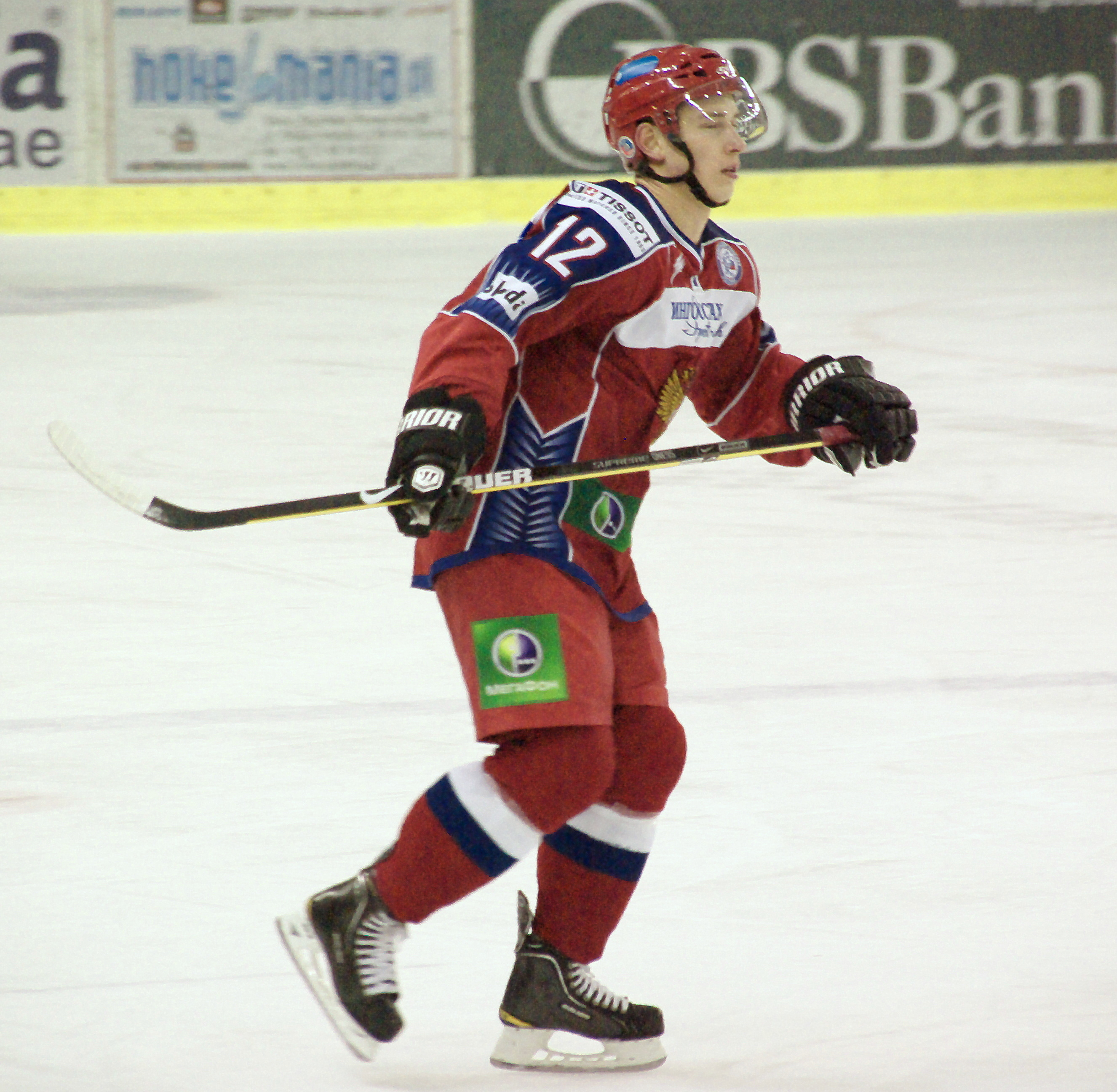 Maxim Chudinov during match Russia B - Ukraine (EIHC Tournament in Sanok, Poland)